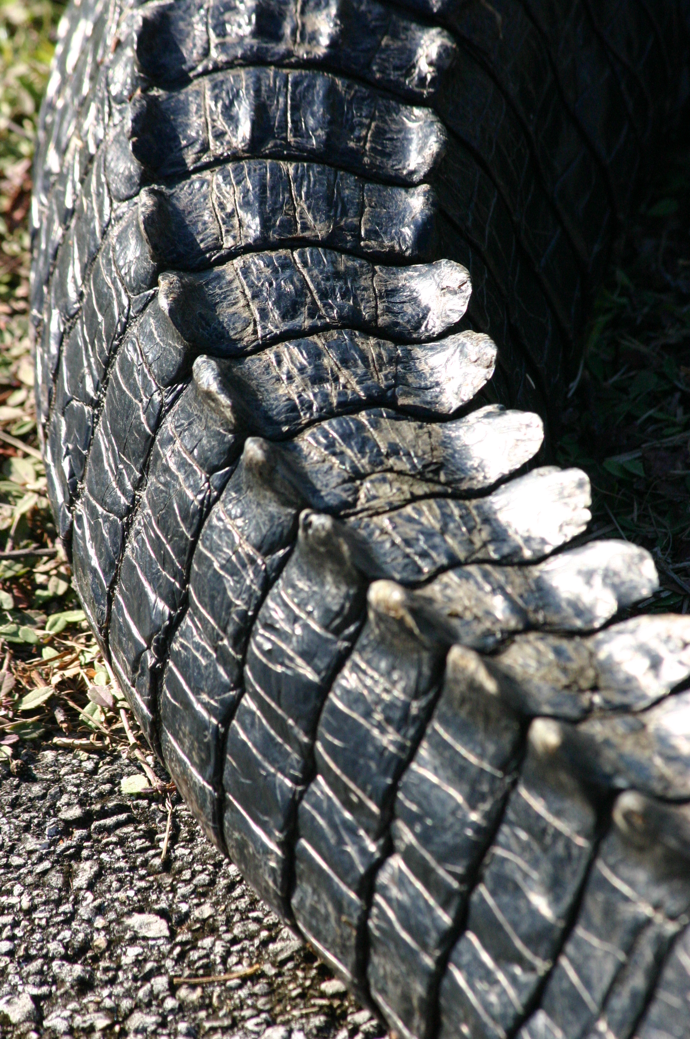 Alligator tail showing its strength (Alligator mississipiensis)